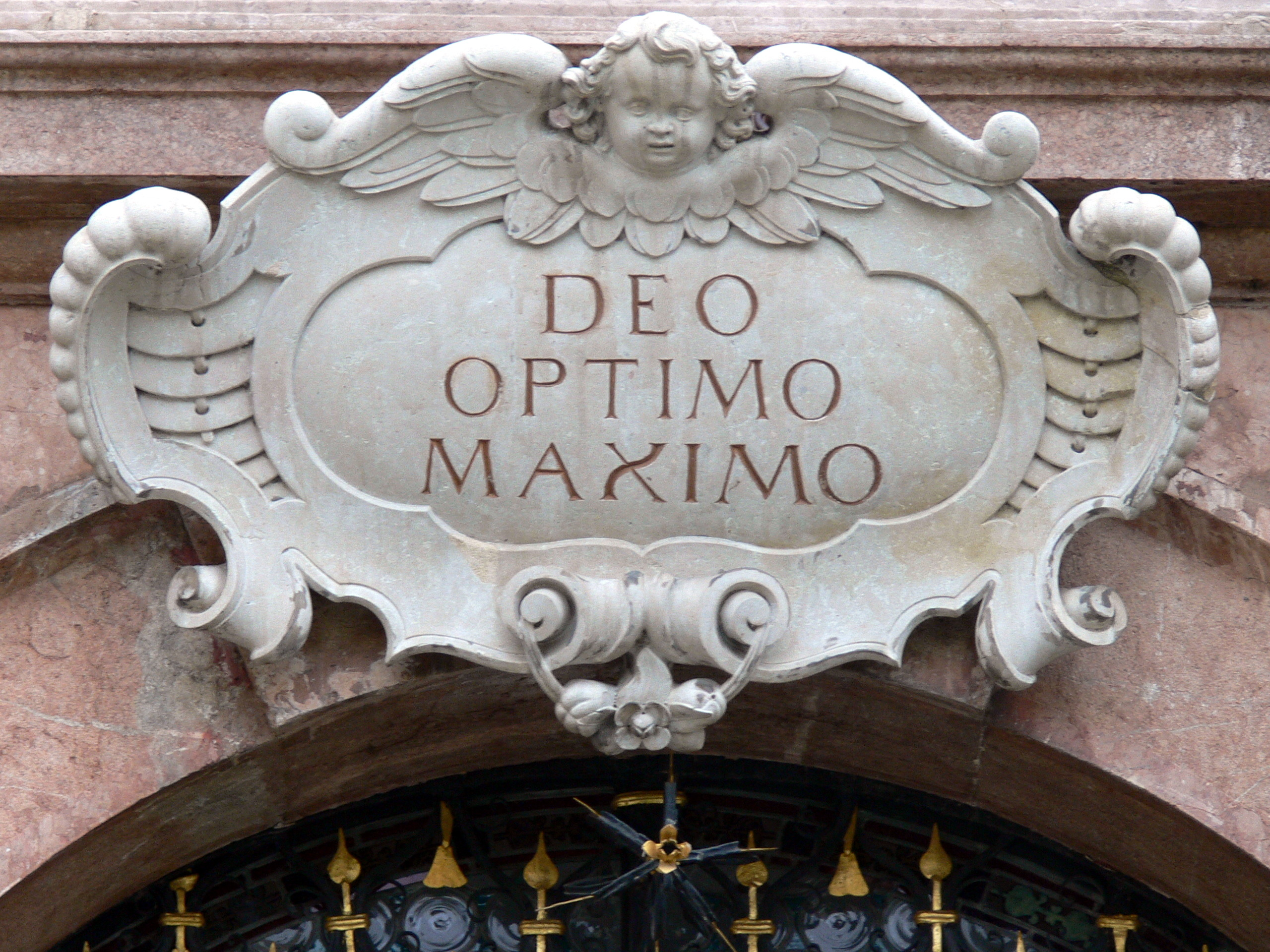 Schlägl. Portal of the monastery church ( 1654 ) by Johann Spaz d.J. - detail: Inscription "Deo Optimo Maximo" ( To God, the best and greatest ).